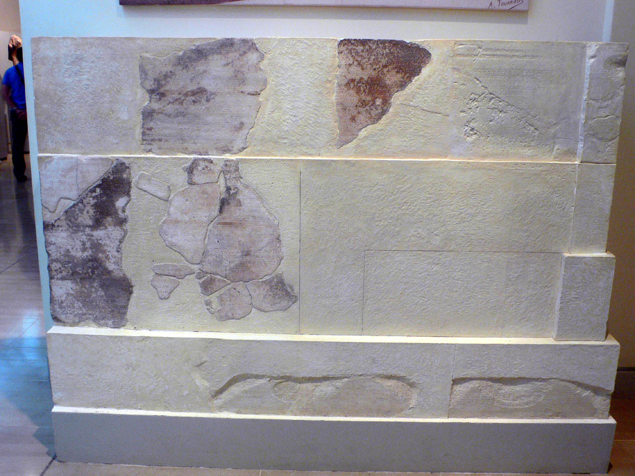 Delphic hymns to Apolo in Delphi, first exemple of musical notation. Archaeological Museum of Delphi (Greece)